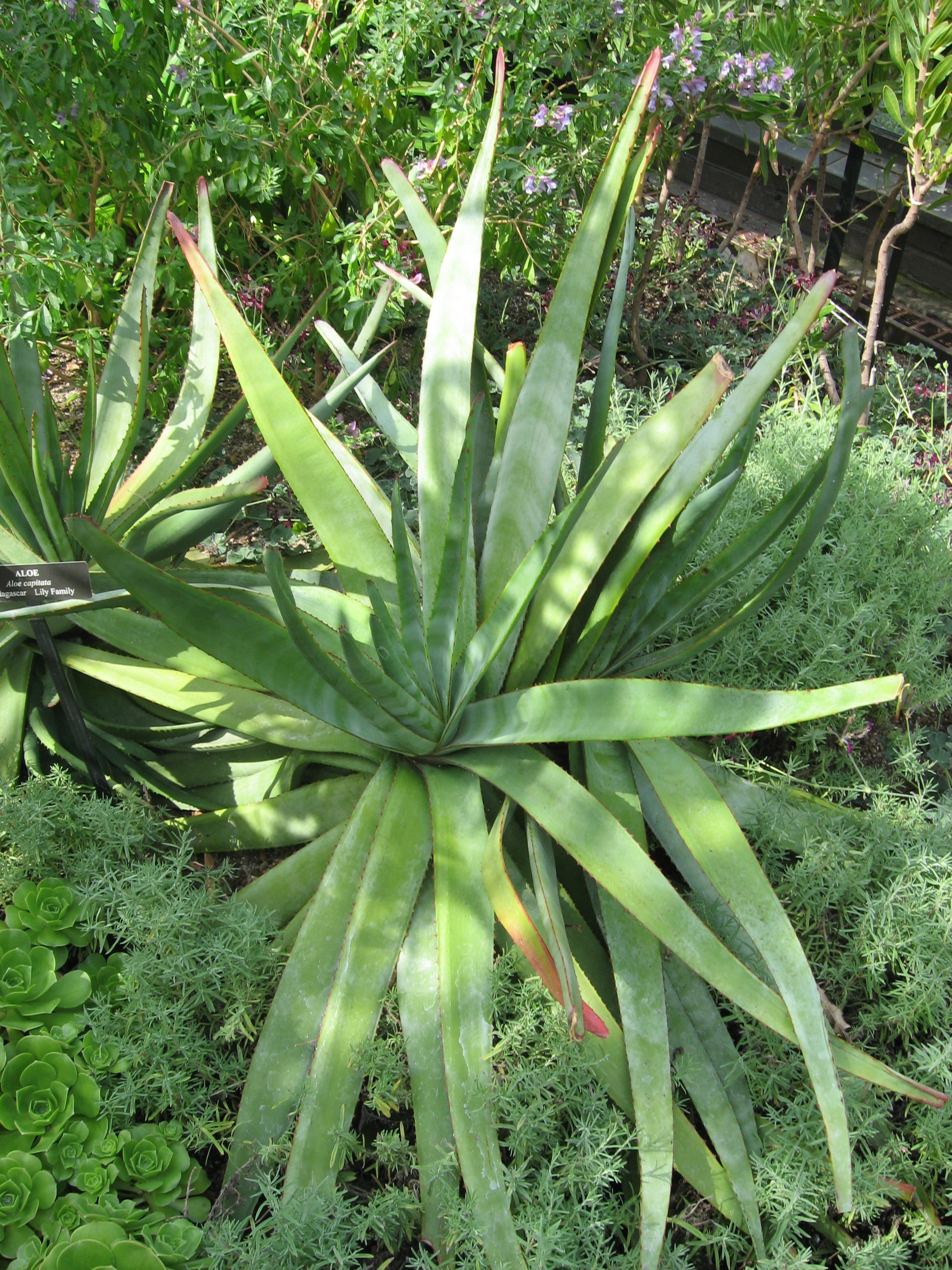 A picture of Aloe capitata.